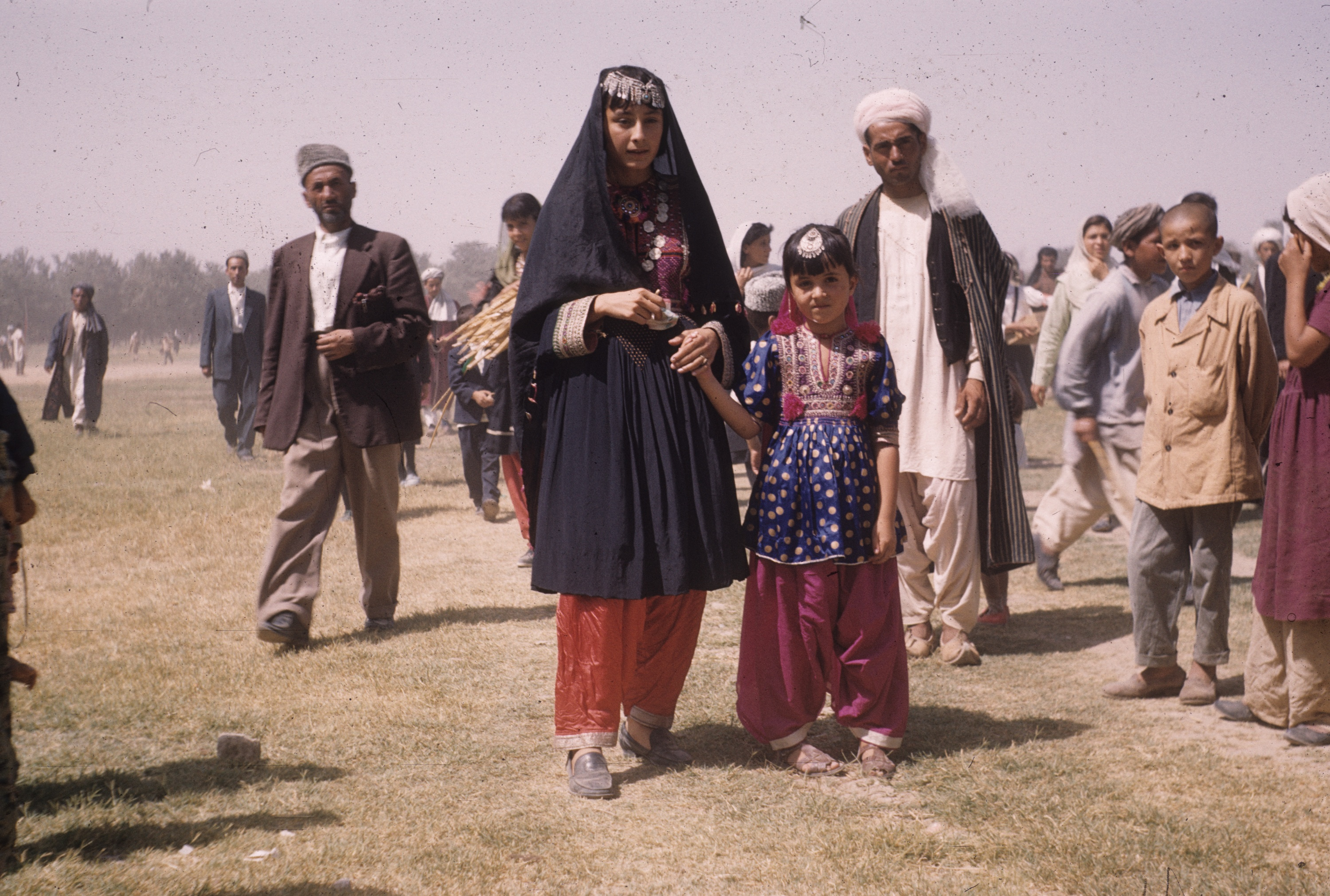 Woman and girl in ceremonial costume, unidentified place near Kabul.